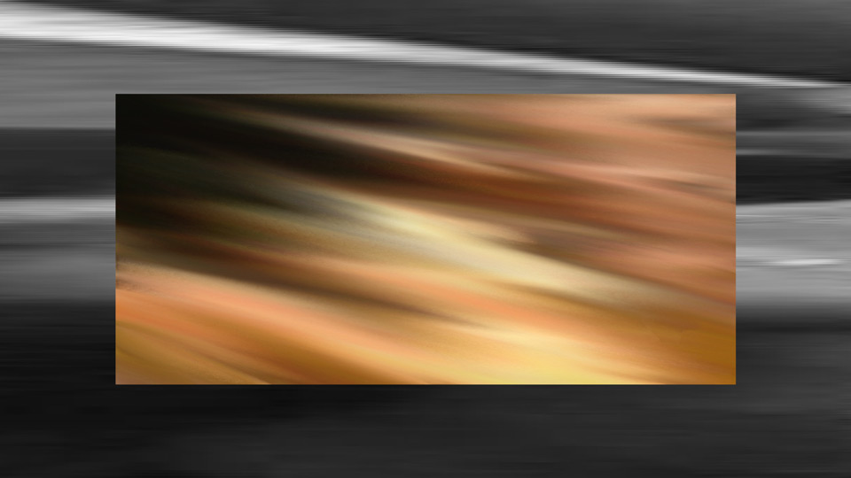 Filmstill THERESIA 2013